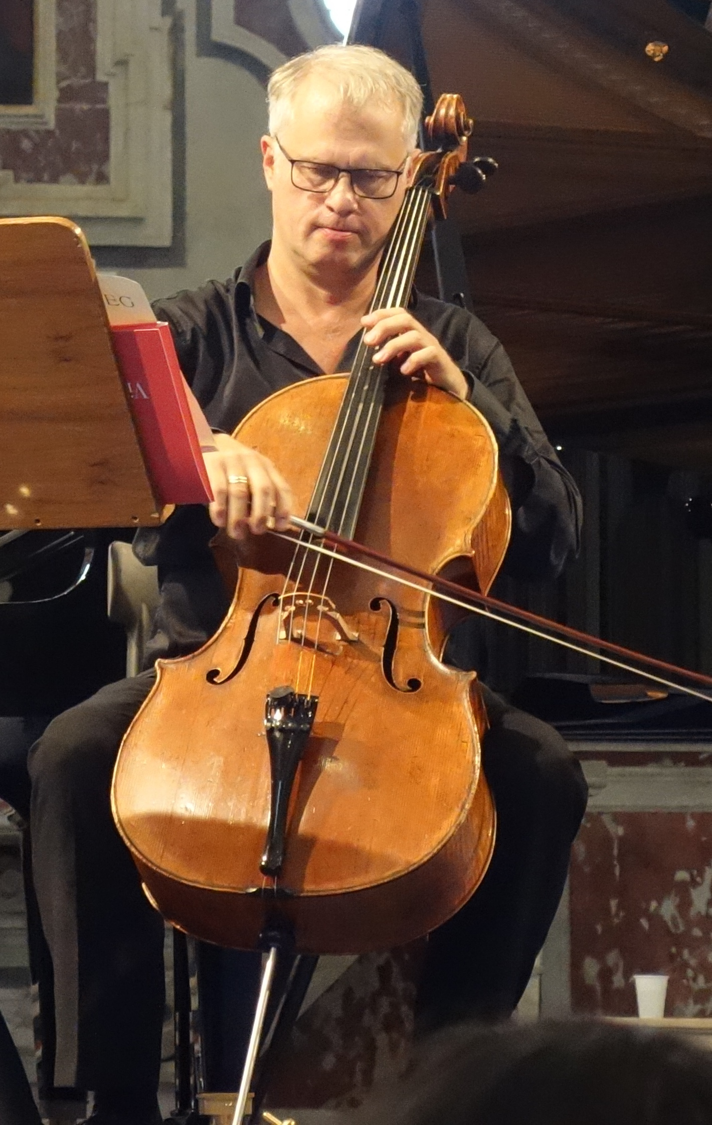 Swedish violonceloo player Torleif Thedéen (Lucca, 2017)